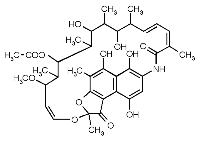 Structural diagram of rifamycin